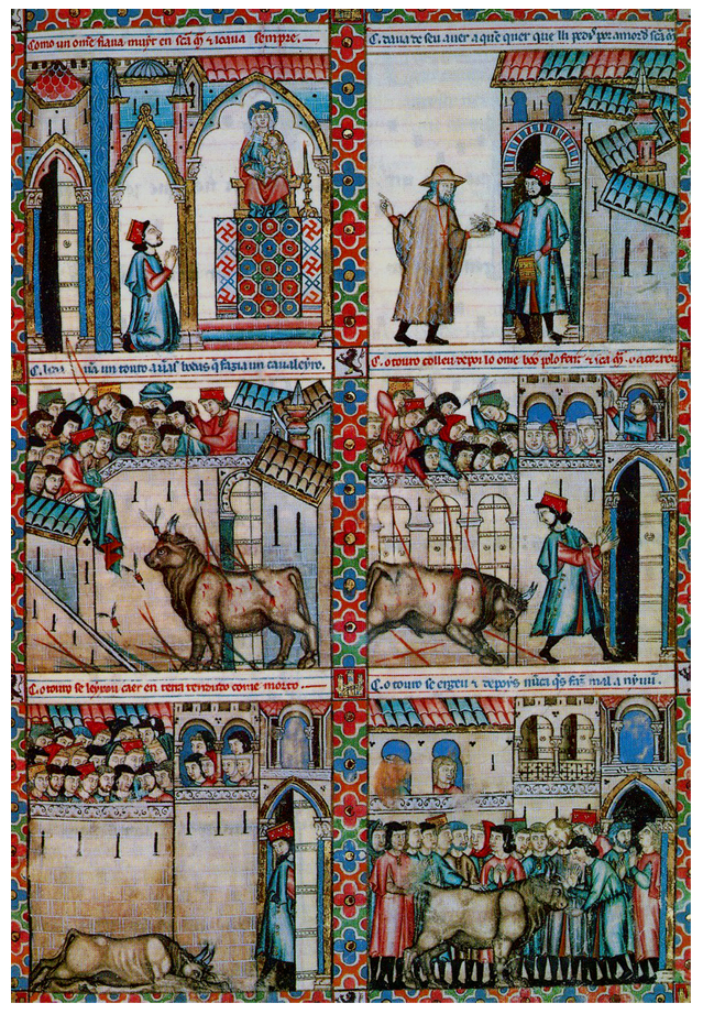 Cantigas de Santa Maria, Cantiga CXLIV - The miracle of the bull at Plasencia. A man prays to Our Lady, and then passes a bull during the bullfight at a knight's marriage; but the bull falls to the ground and the man reaches his home safely; the bull then rises, and "never hurts anyone again".